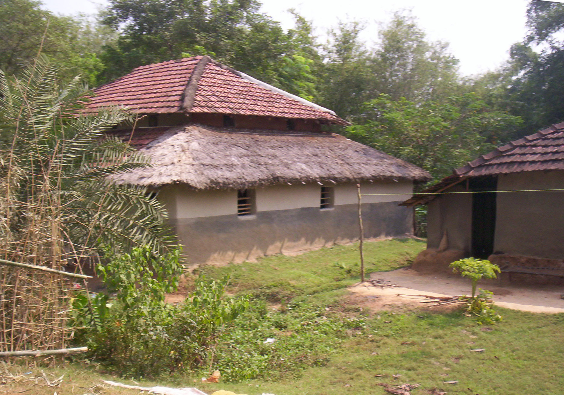 A village hut in West Midnapur district in West Bengal, India